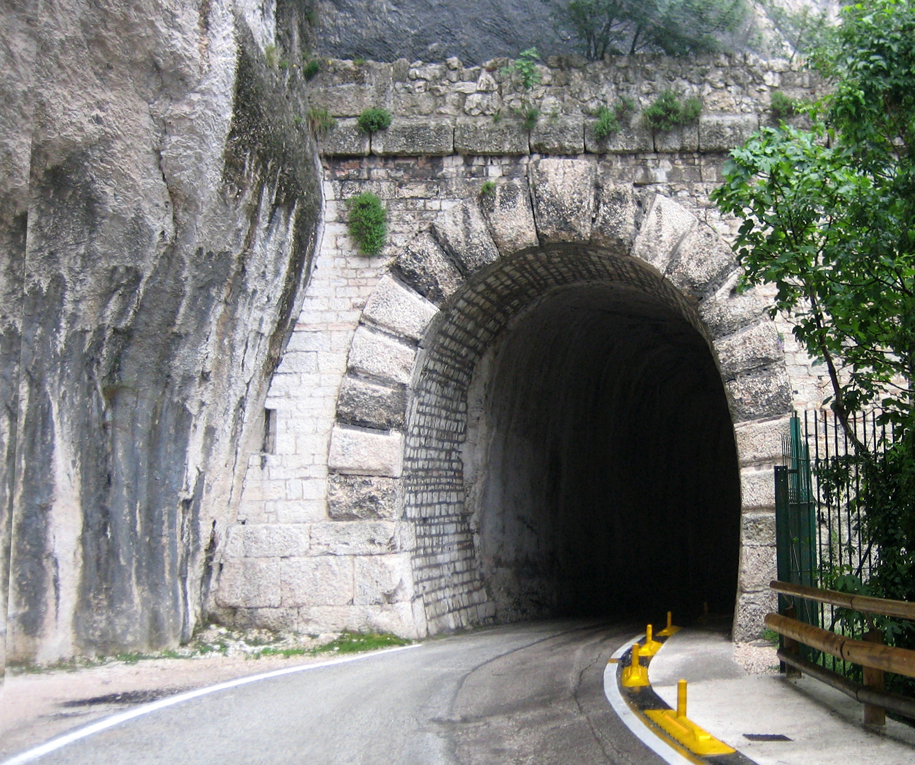 The south entrance of the Furlo tunnel in the course of the Via Flaminia Antica near Fossombrone in Marche in Italy.